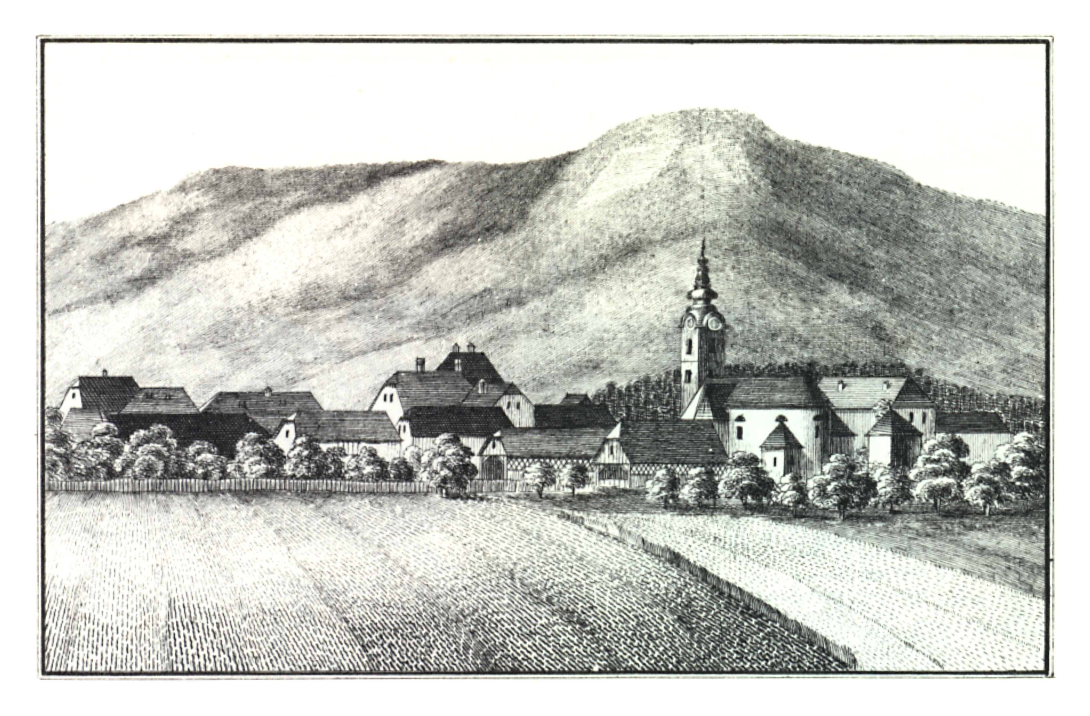 J. F. Kaiser - lithographirte Ansichten der Steyermärkischen Städte, Märkte und Schlösser Graz, 1825 Scanprojekt Community Projektbudget 2012 This scan or this PDF-file was created within the GLAM-project Bookscanning, supported by Wikimedia Germany and Wikimedia Austria as a part of the community-project to capture books, documents and pictures which are not eligible to copyright or for which the copyright has expired. This document describes or depicts an object which is located in Austria today. Send requests for uncompressed scans to Hubertl. This work is in the public domain in its country of origin and other countries and areas where the copyright term is the author's life plus 100 years or fewer. You must also include a United States public domain tag to indicate why this work is in the public domain in the United States. This file has been identified as being free of known restrictions under copyright law, including all related and neighboring rights.